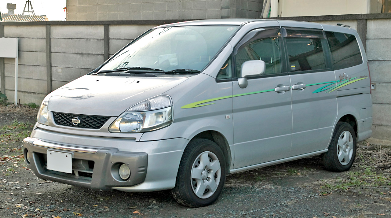 Nissan Serena Kita-Kitsune, with front over-rider ( PC24 )